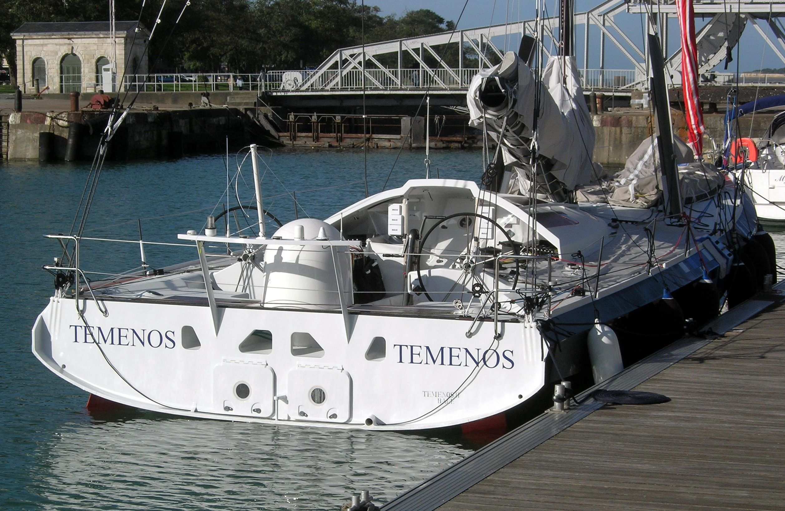 Description =Temenos dans le port de la Rochelle Source =Photo taken by Remi Jouan Date =Octobre 2006 Author =Remi Jouan